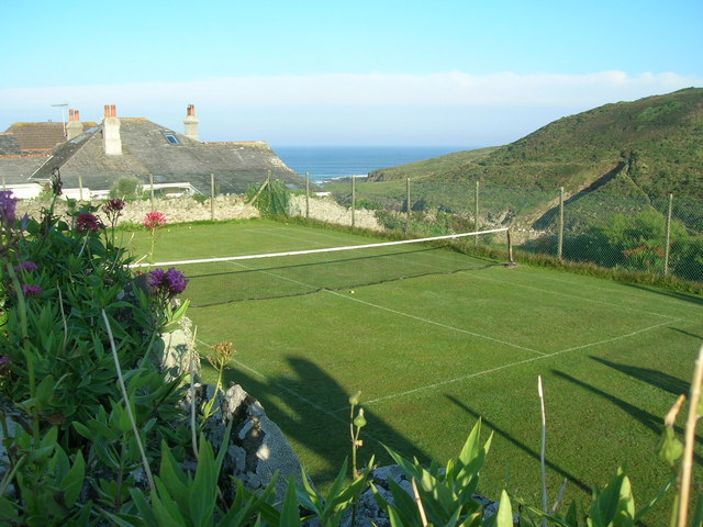 New Polzeath grass tennis court Looking out over Pentireglaze Haven and the footpath to Pentire this private court has a view worth playing for.